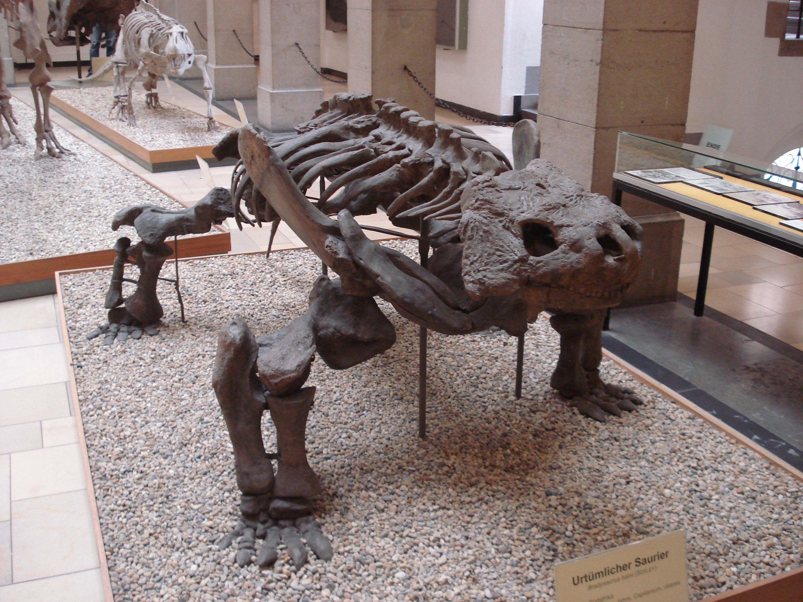 fossil of bradysaurus baini